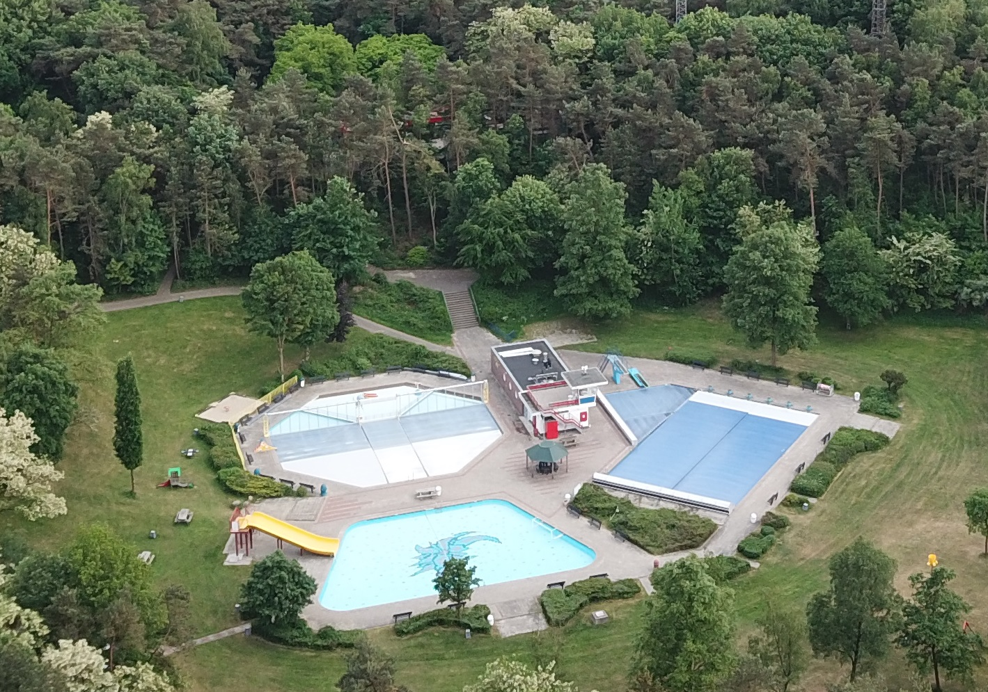 Swimming Pool Leersum